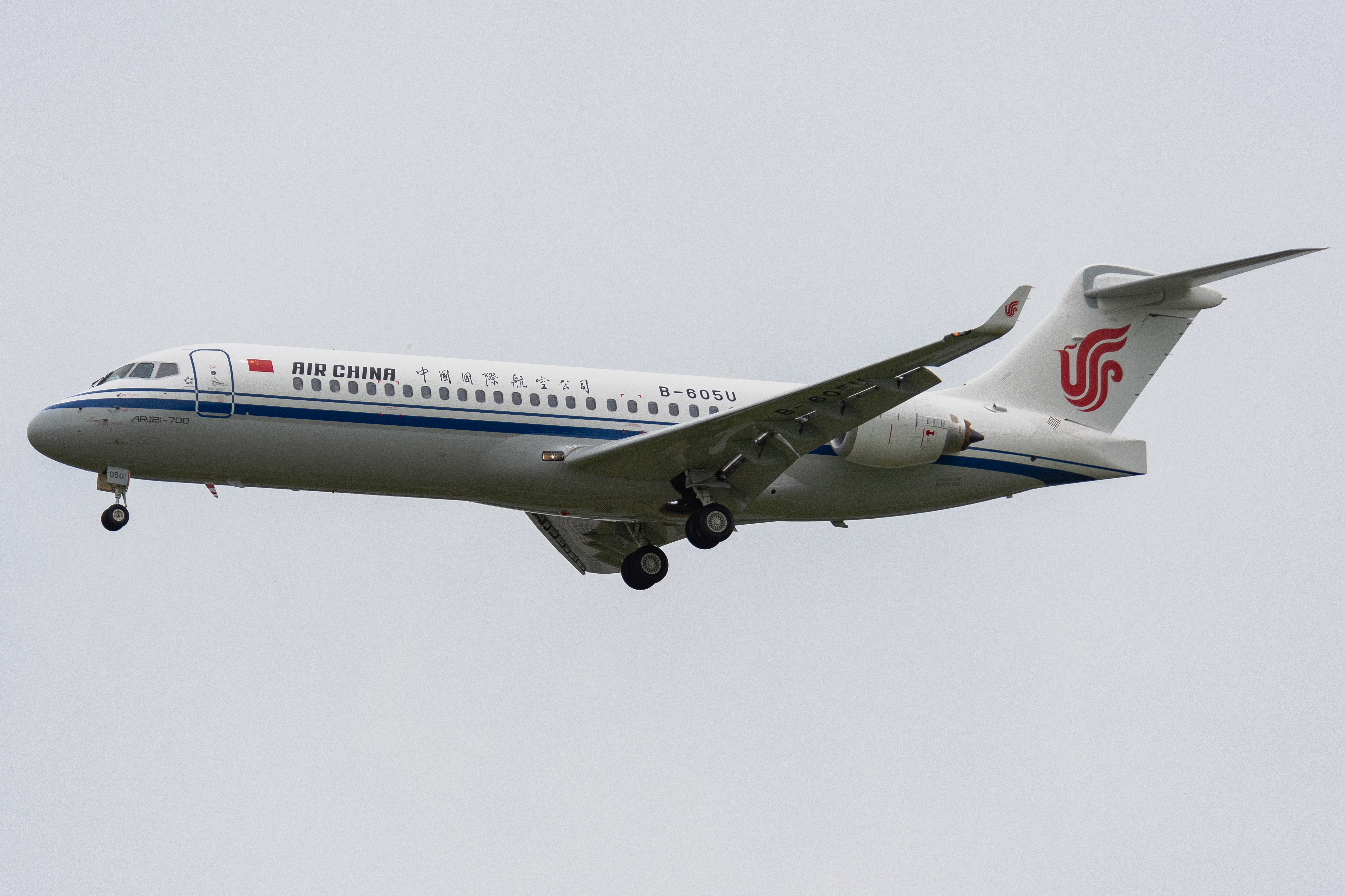 Air China 088 from Shanghai-Pudong. For those who love DC-9s...